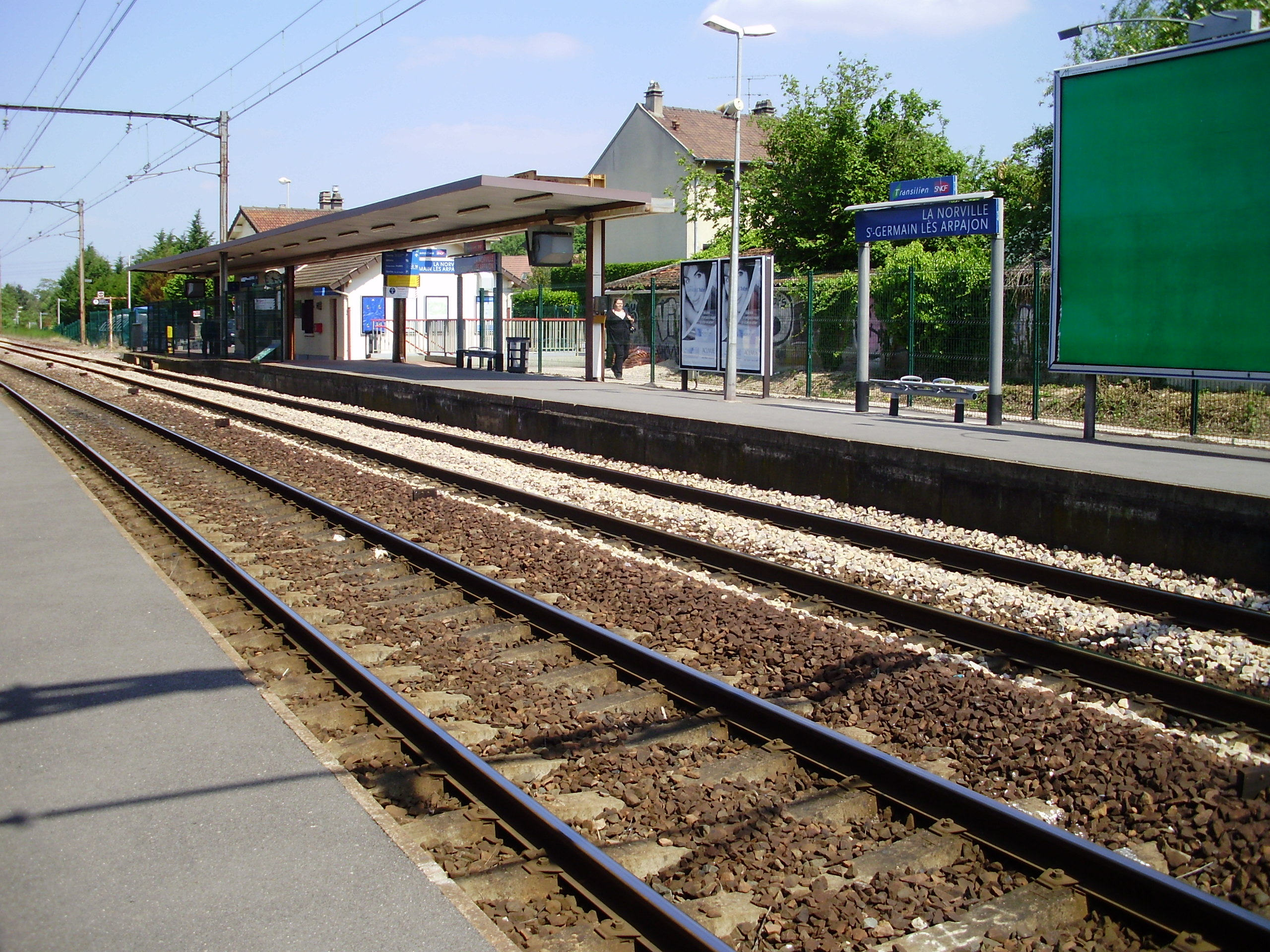 La Norville - Saint-Germain-lès-Arpajon station, in La Norville, Essonne, France (view of Dourdan platform from Paris platform)